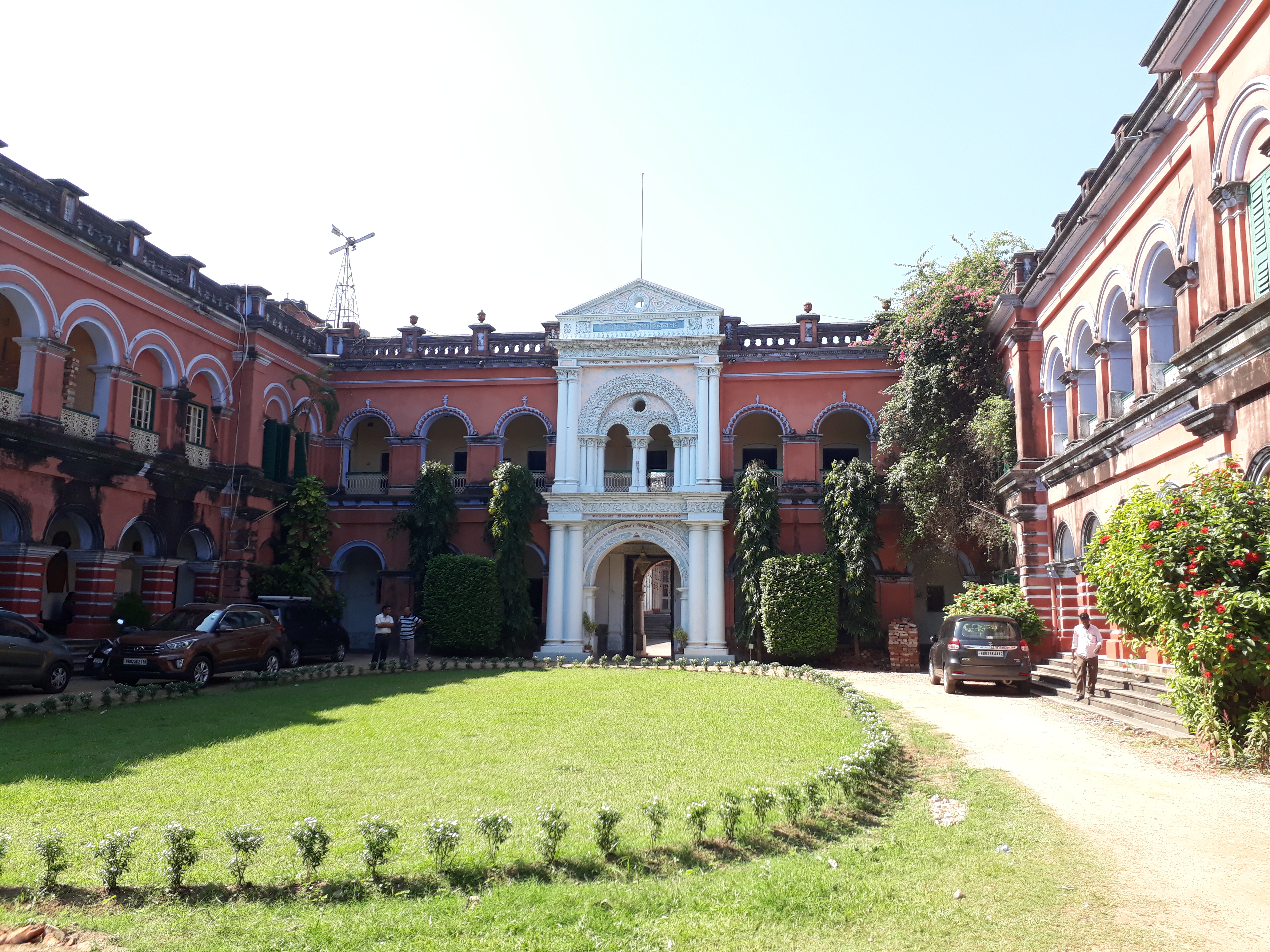 Itachuna Rajbari a tourist spot and shooting location in Itachuna Village, Hooghly district.